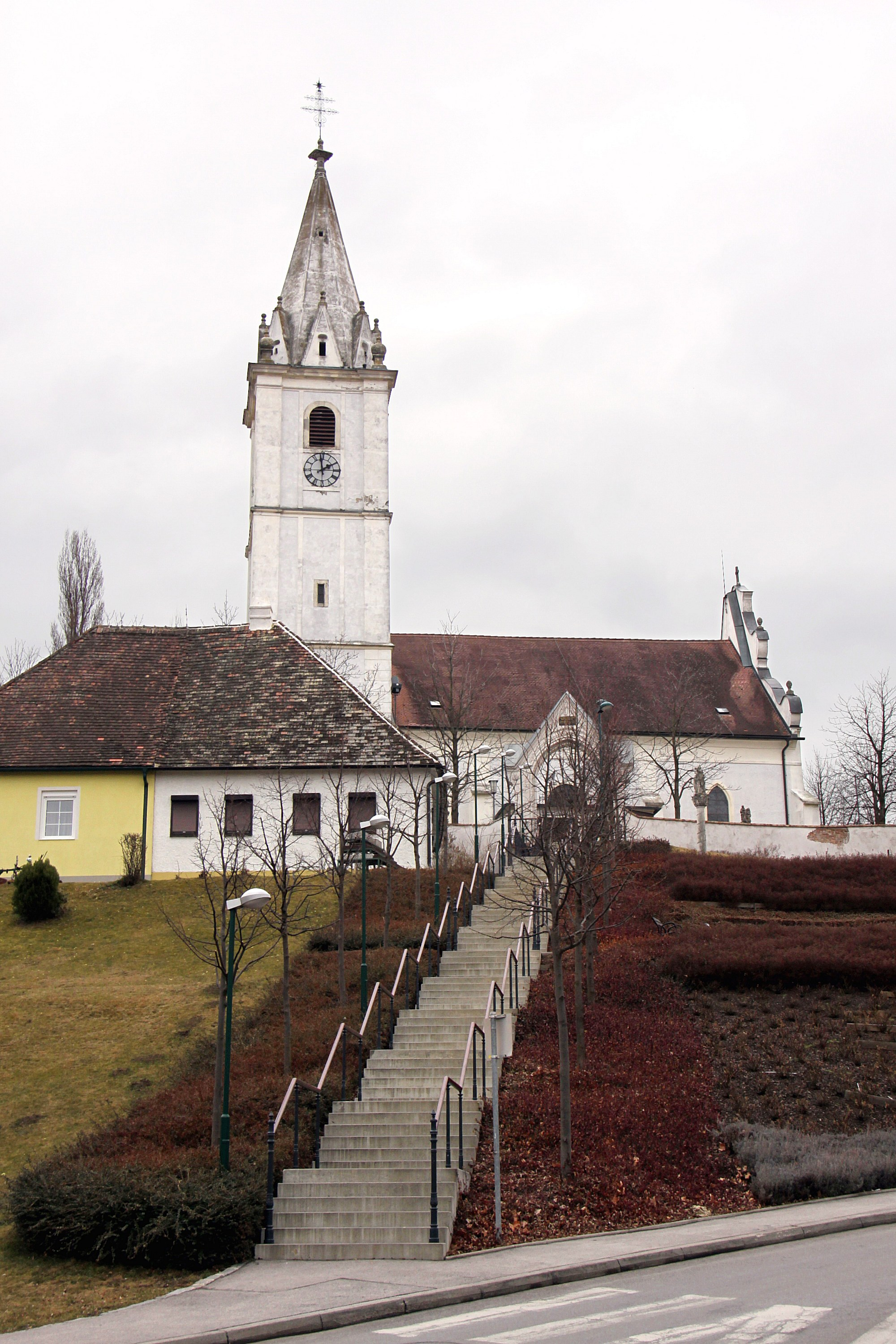 Stairs to parish church - Mattersburg.